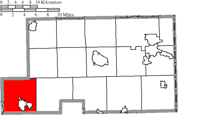 Map of the municipal and township boundaries of Mahoning County, Ohio, United States, as of the 2000 census, with the location of Smith Township highlighted. Township borders are shown only in unincorporated areas in order to differentiate incorporated and unincorporated areas more clearly.